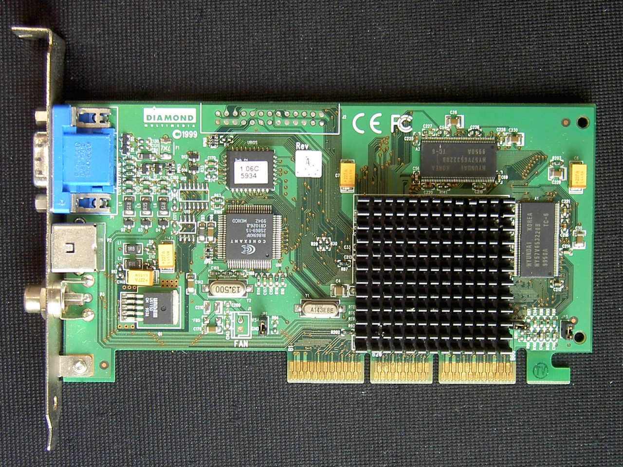 Diamond MultiMedia ViperII Z200 Savage2000 AGP Card